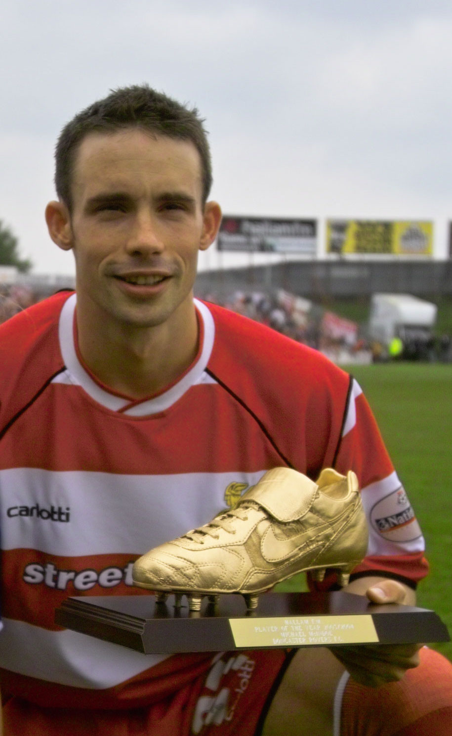 Michael McIndoe receiving the golden boot for Doncaster Rovers in May 2005